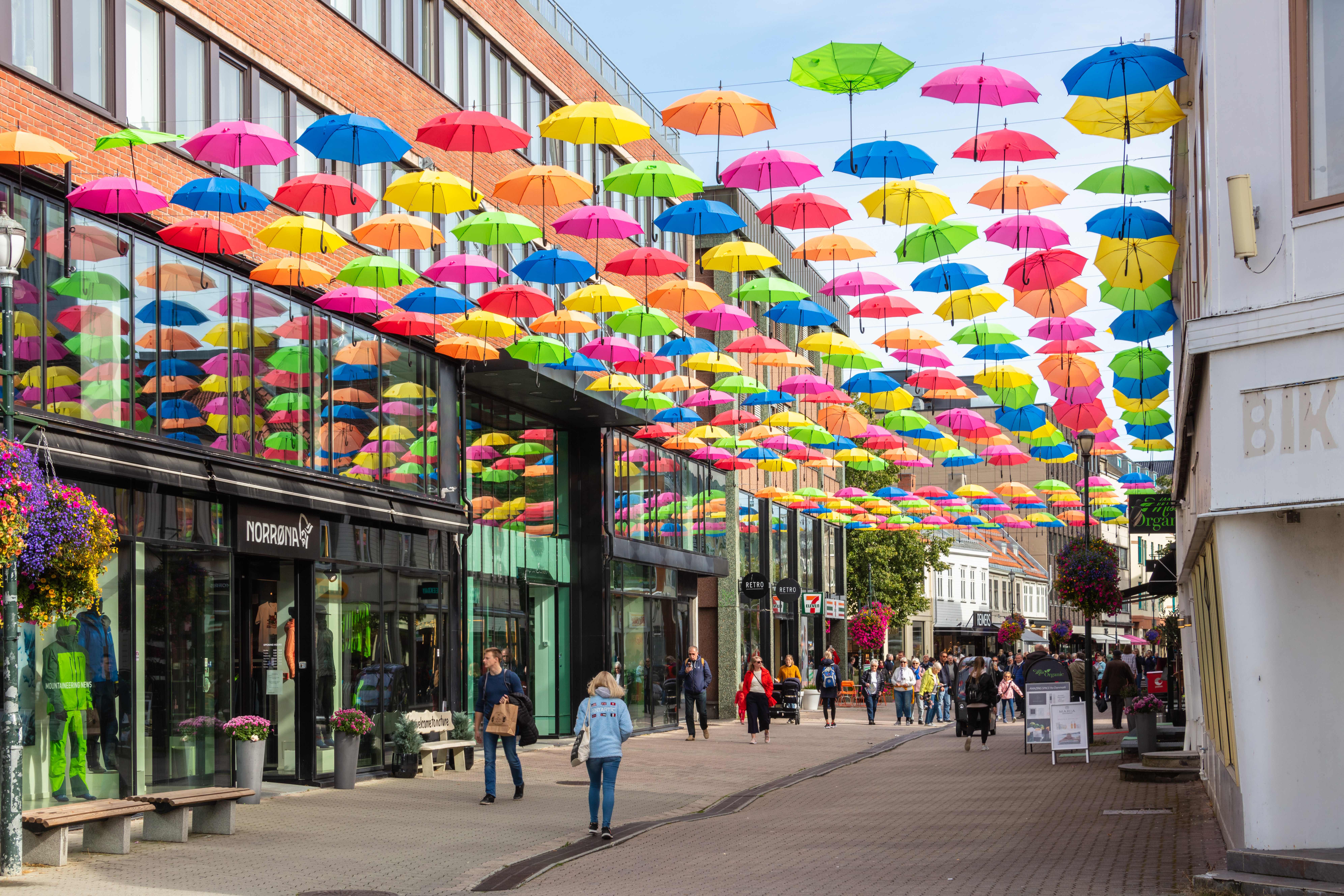 Thomas Angells St, Trondheim, Norway